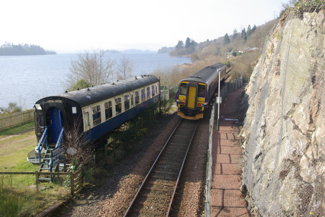 Railway at Loch Awe